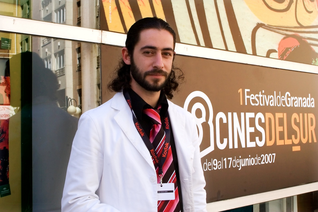 1SUR - 2007 Elie Mitri, actor of the film "Falafel" from Lebanon